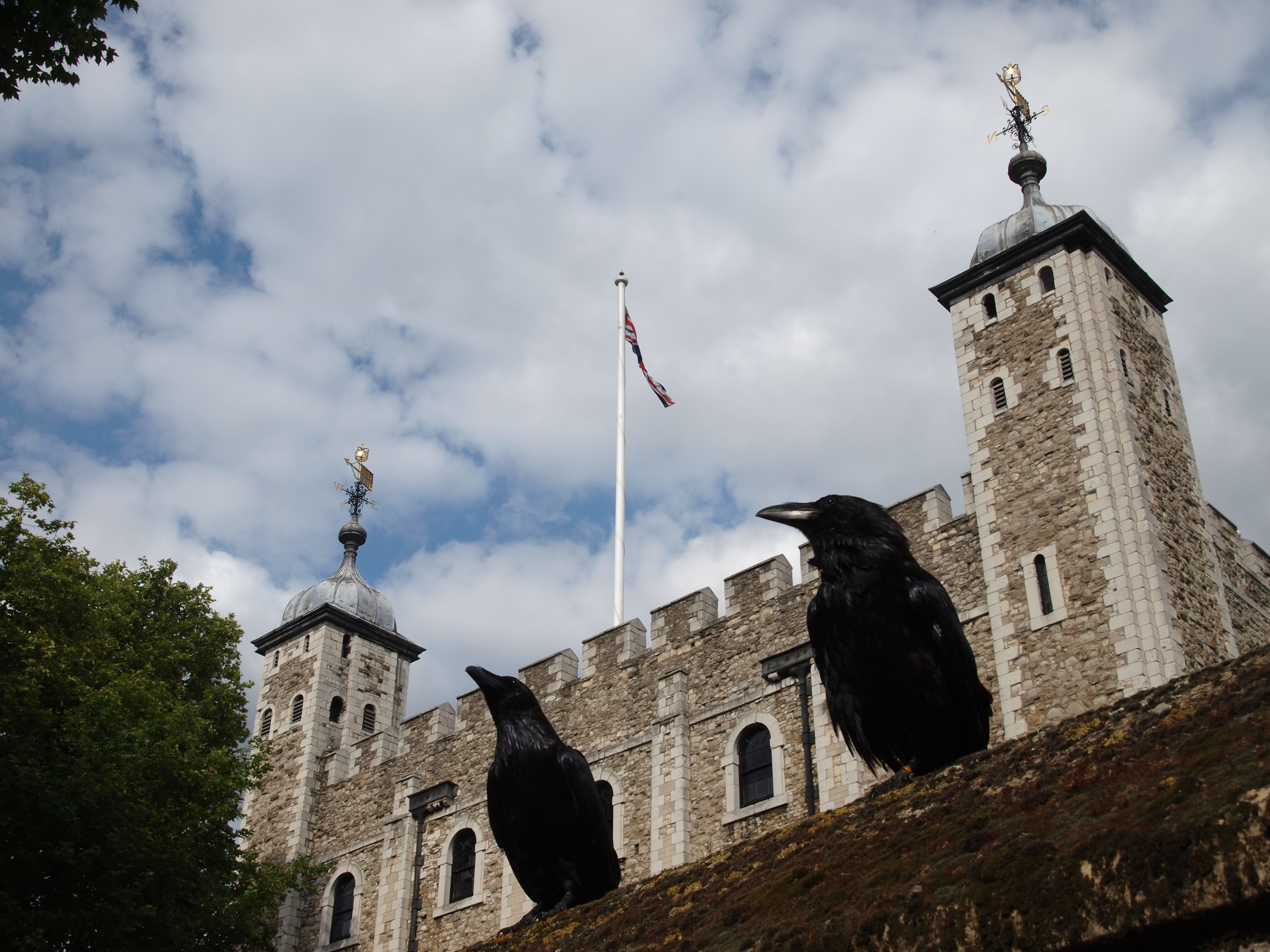 Two ravens (Corvus corax) at the Tower of London.